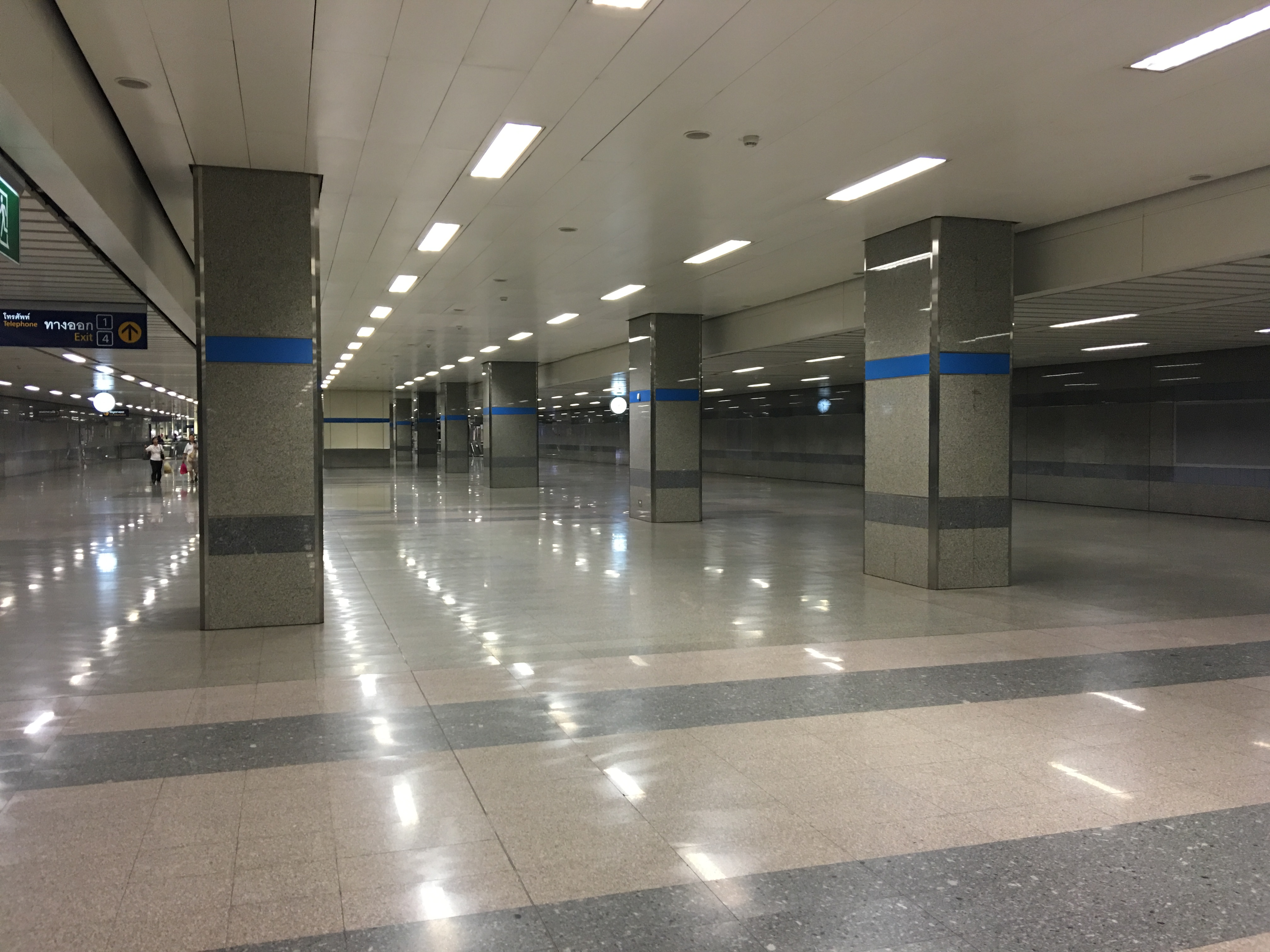 The concourse level of Thailand Cultural Centre Station